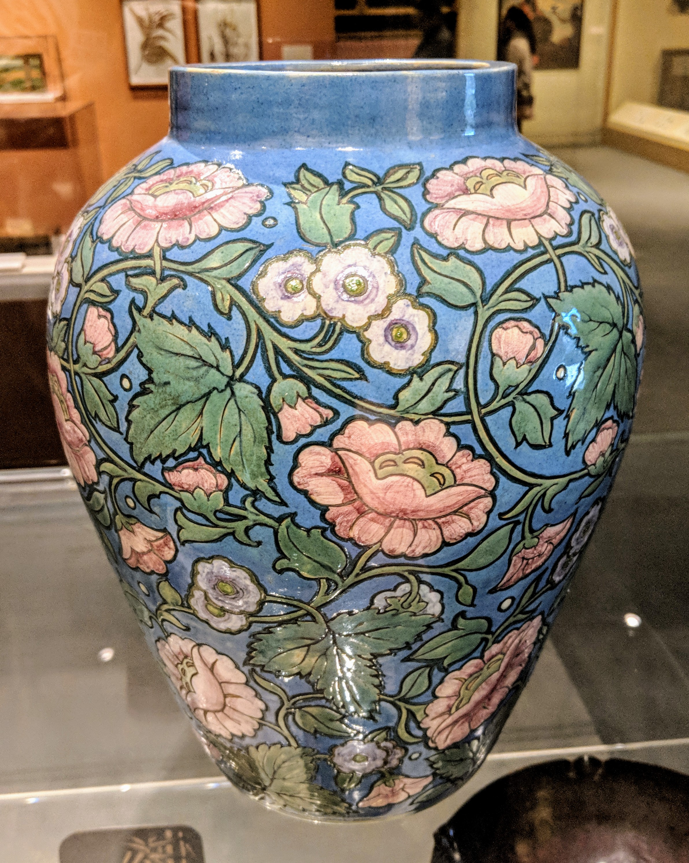 A glazed eathenware pottery vase made by Arequipa pottery in approximately 1911-1918. On display at the Oakland Museum of California. Photo by Jim Heaphy.